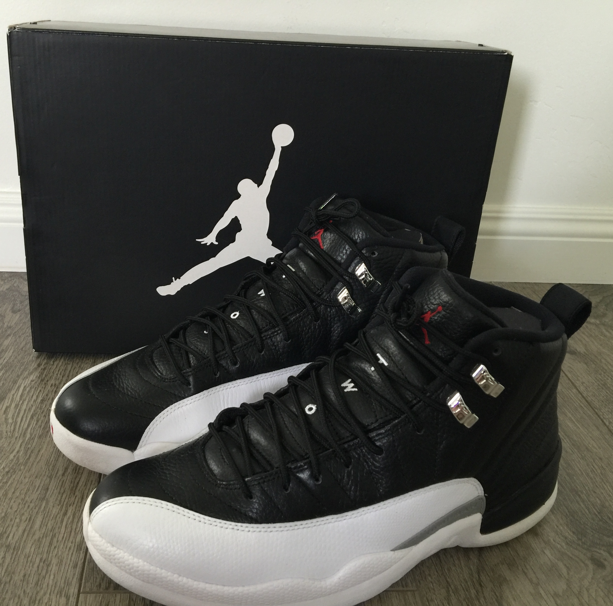 Air Jordan XII (Playoffs Colorway)